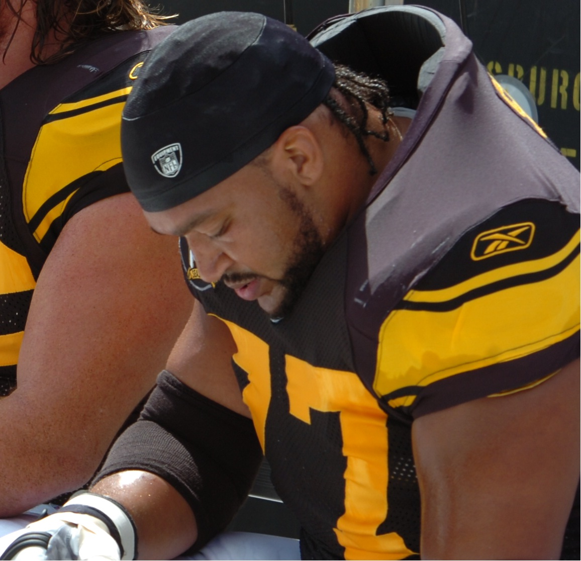 Marvel Smith in Pittsburgh Steelers throwback uniform - September 16, 2007